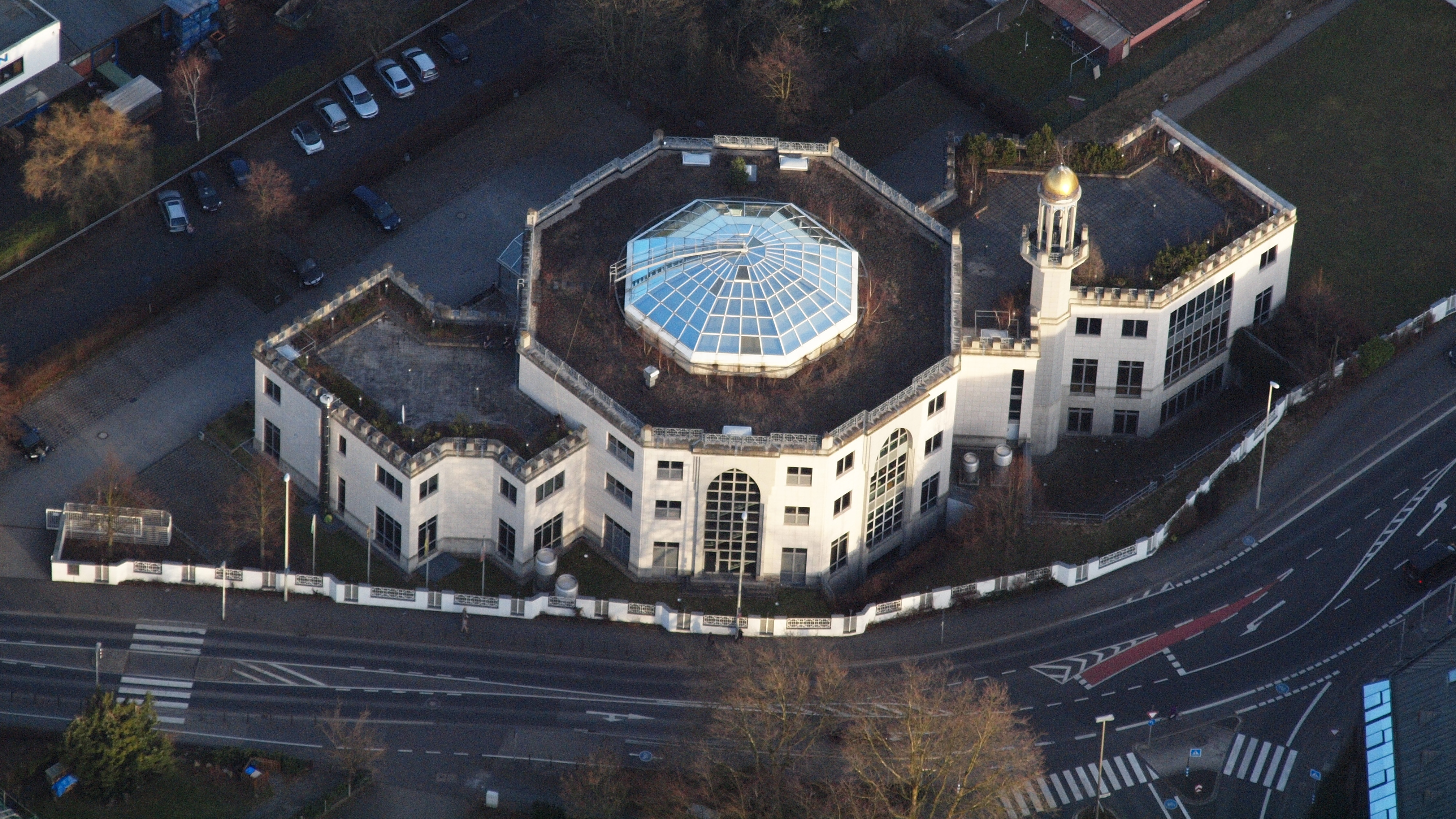 Aerial view of the King Fahd Academy in Bad Godesberg, Lannesdorf, Bonn, Germany